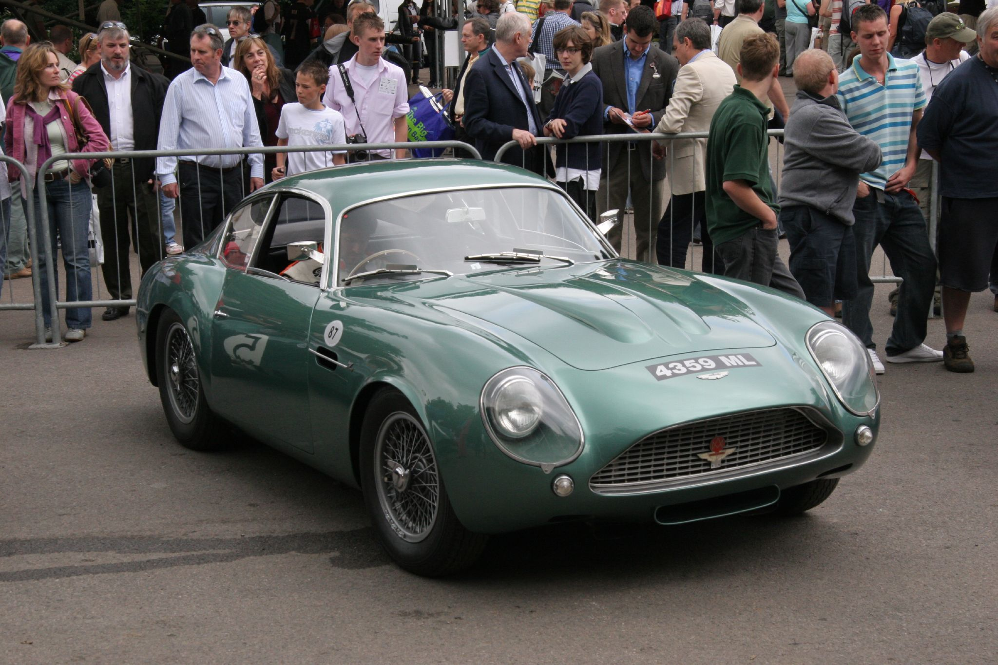 Aston Martin DB4GT Zagato at the Goodwood Festival of Speed